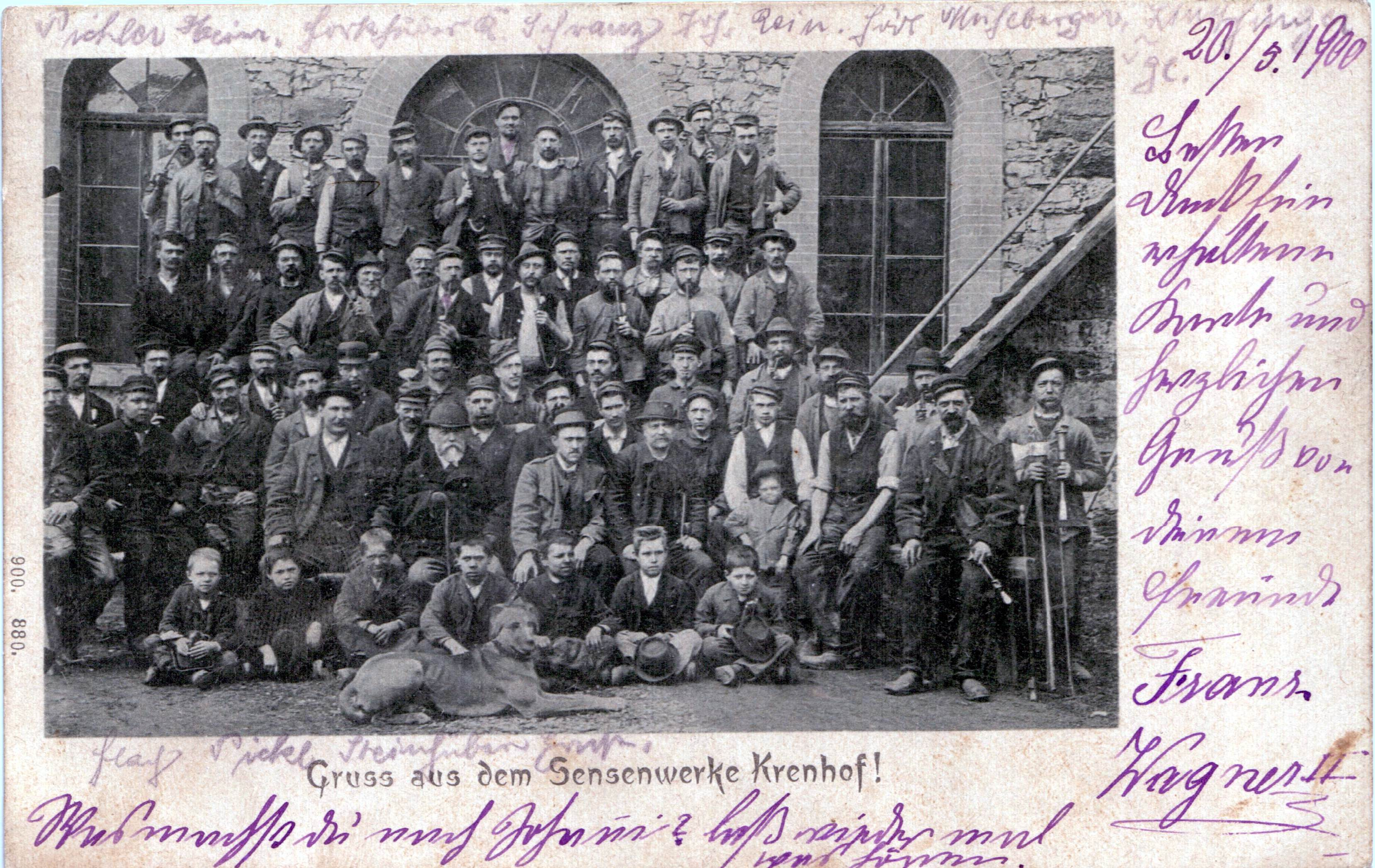 Greating from the scythes shop Krenhof to Mr, Hans Oberhammer